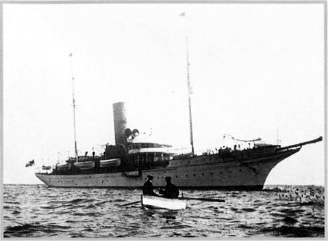 Steam Yacht Iolanda, owner - Michael Tereschenko